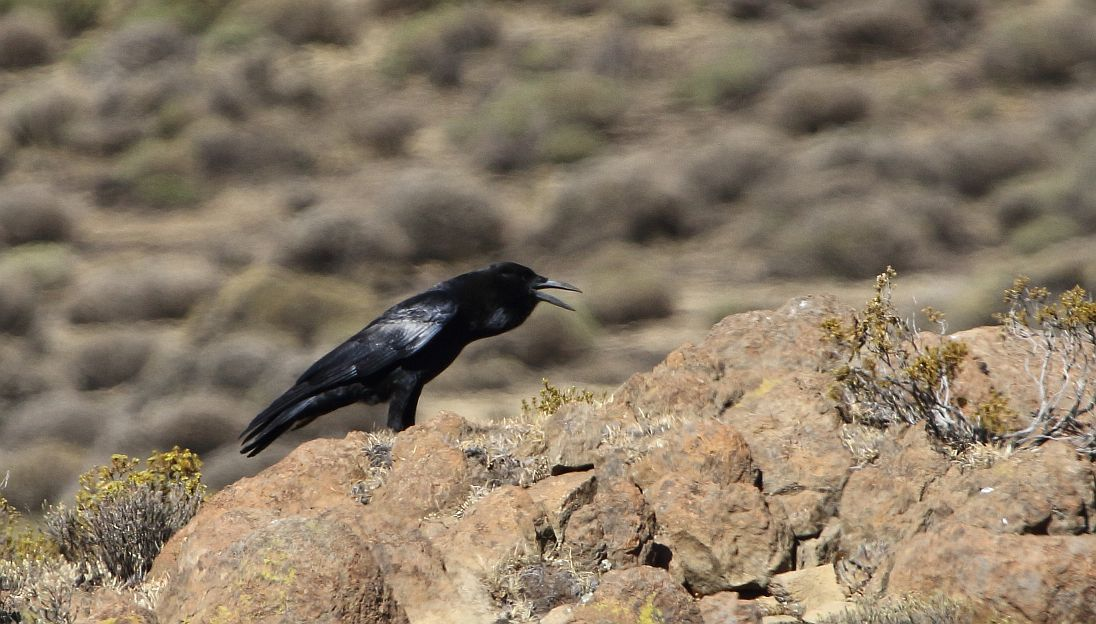 Cape crow Corvus capensis calling; near Sani Pass, Lesotho.